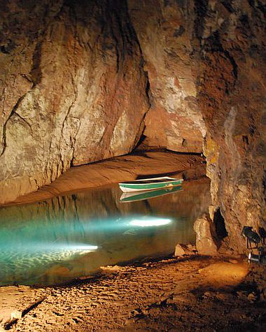 Wookey Hole caves Cave chamber at Wookey Hole